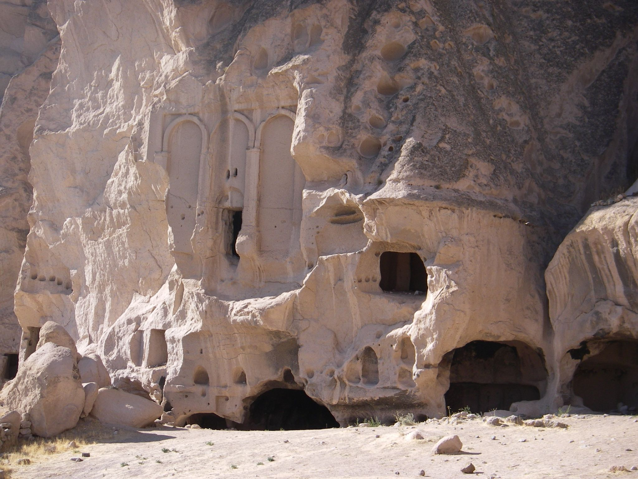 Selime Cathedral is located in the Aksaray Province of Turkey.